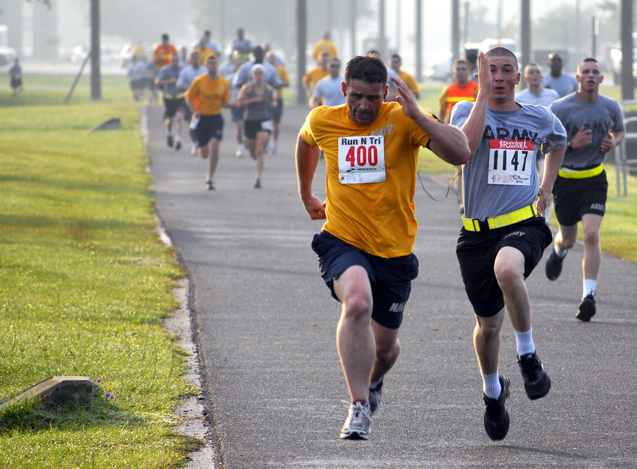 GULFPORT, Miss. (May 19, 2010) A Sailor and a Soldier based in southern Mississippi sprint to the finish line during the Run for Relief 5K Challenge at Naval Construction Battalion Center, Gulfport. The event is an active duty fund drive, where all proceeds go to the Navy and Marine Corps Relief Society. (U.S. Navy photo by Mass Communication Specialist 1st Class Demetrius Kennon/Released)